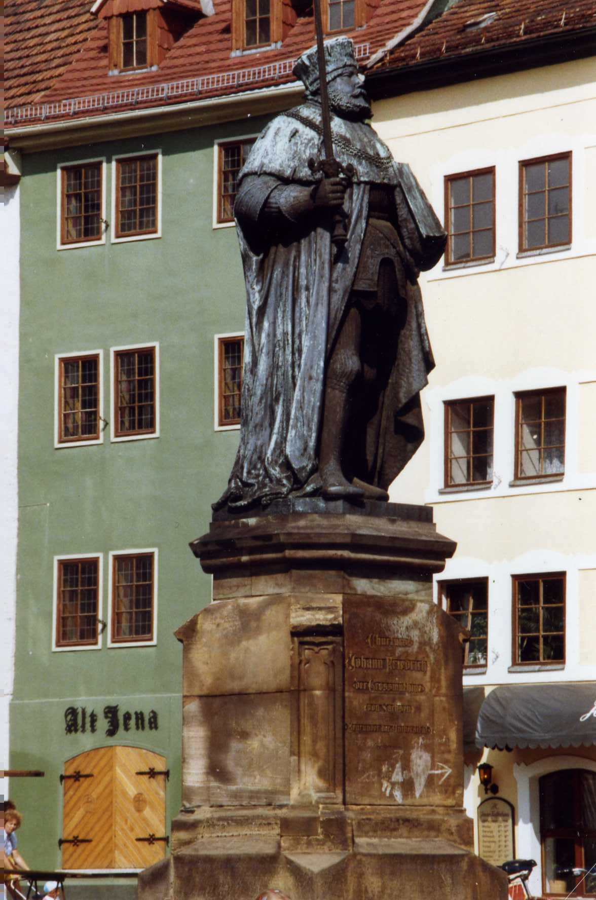 Hanfried monument, Jena, German Democratic Republic, August 1989